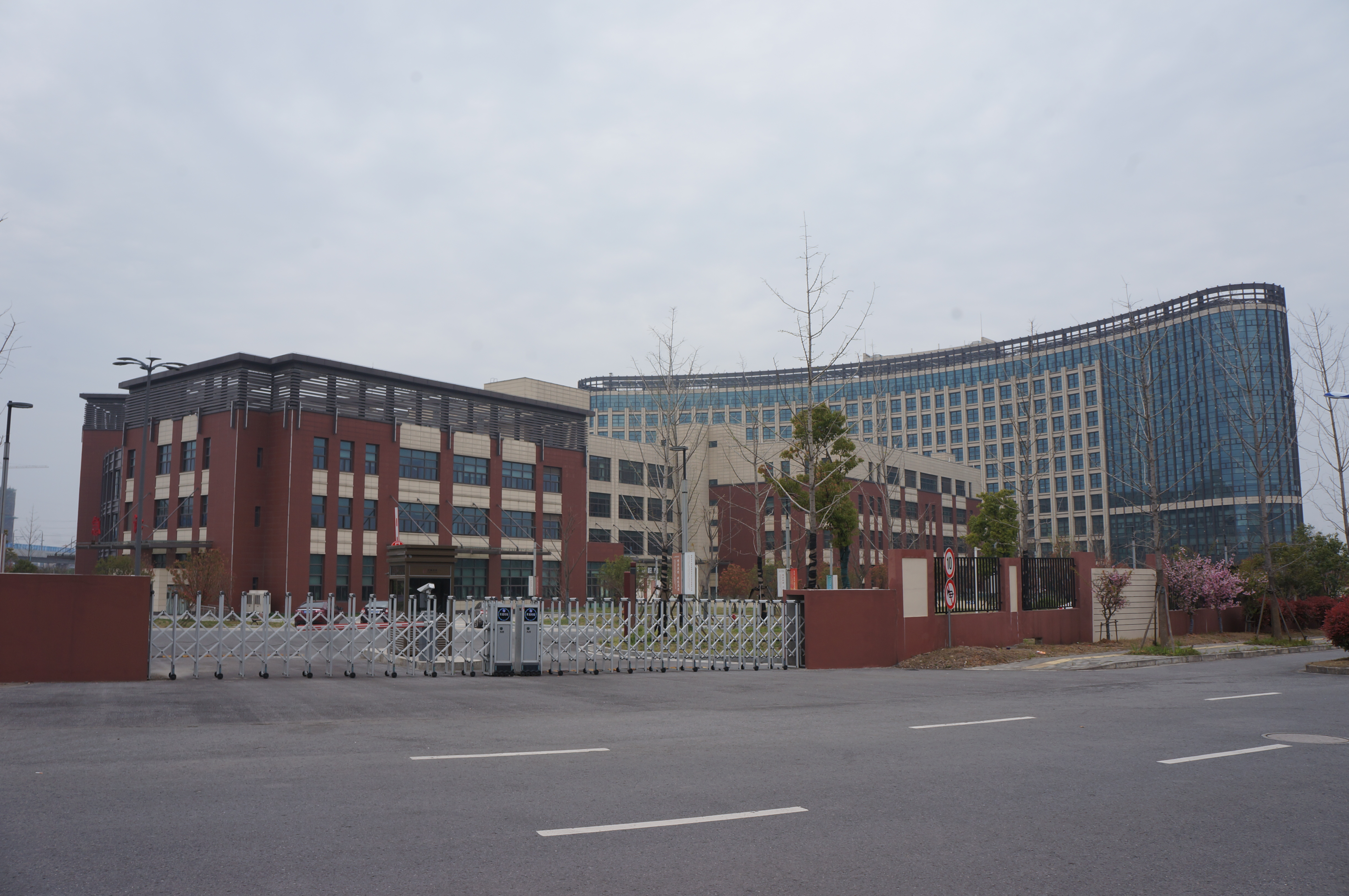 201704 Nanjing Medical University Sir Run Run Hospital